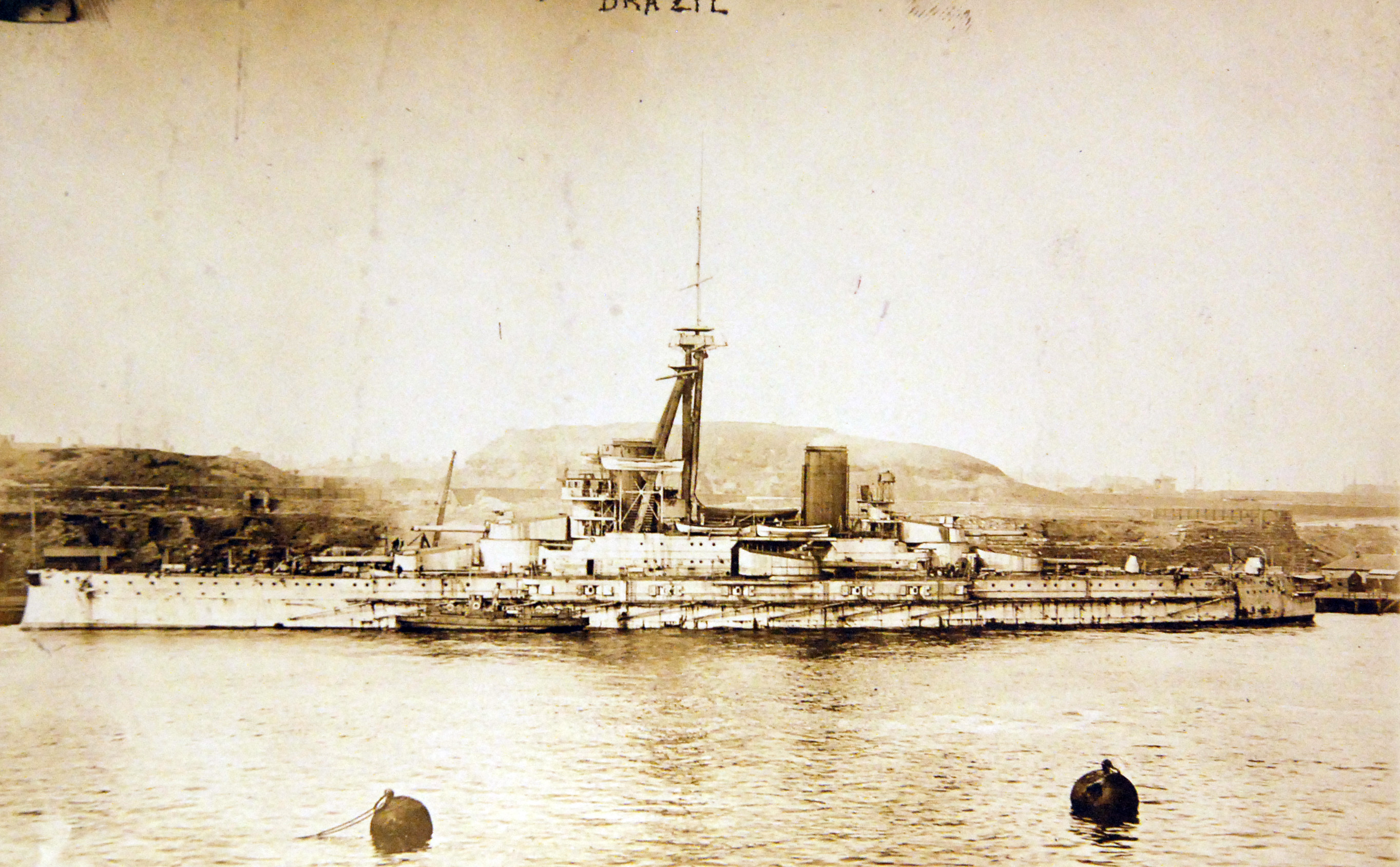 Lot-11256-8: Brazilian battleship, Minas Geraes (1910-1952). Built at Elswick for the Brazilian government, leaving the Tyne, February 7, 1910. Bain Collection. Courtesy of the Library of Congress. (2017/08/04).